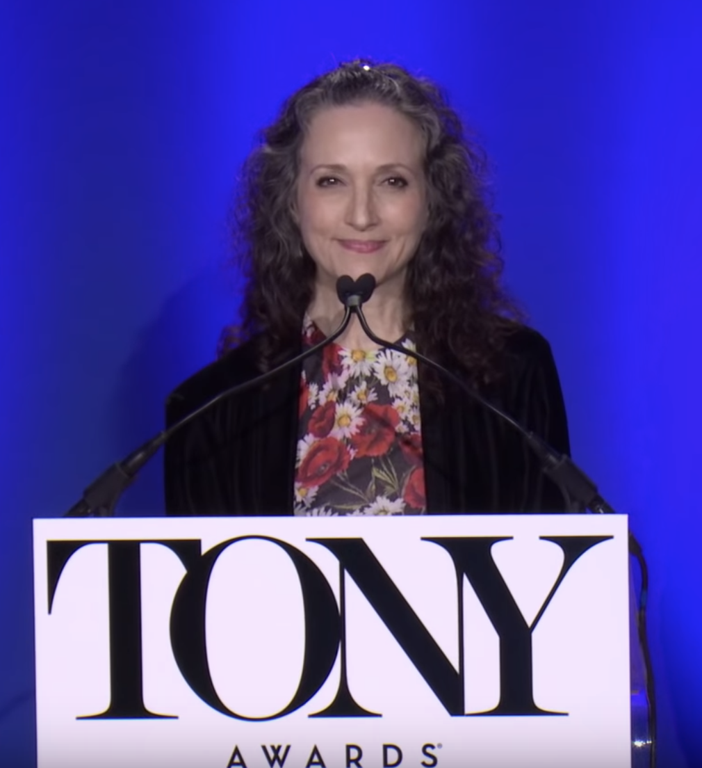 Broadway actress Bebe Neuwirth announcing the 2019 Tony Awards nominations